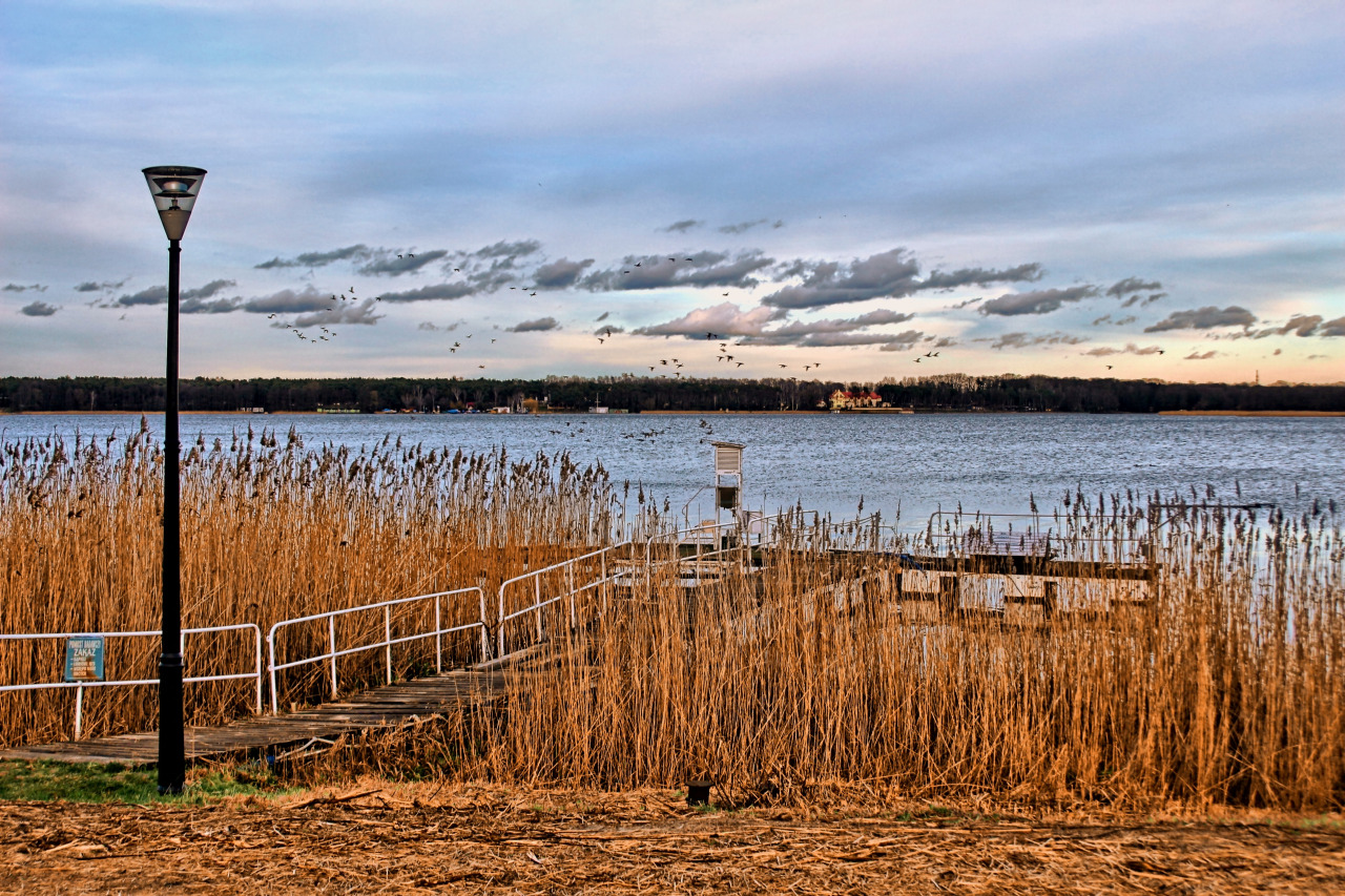 Radzyń, weather station